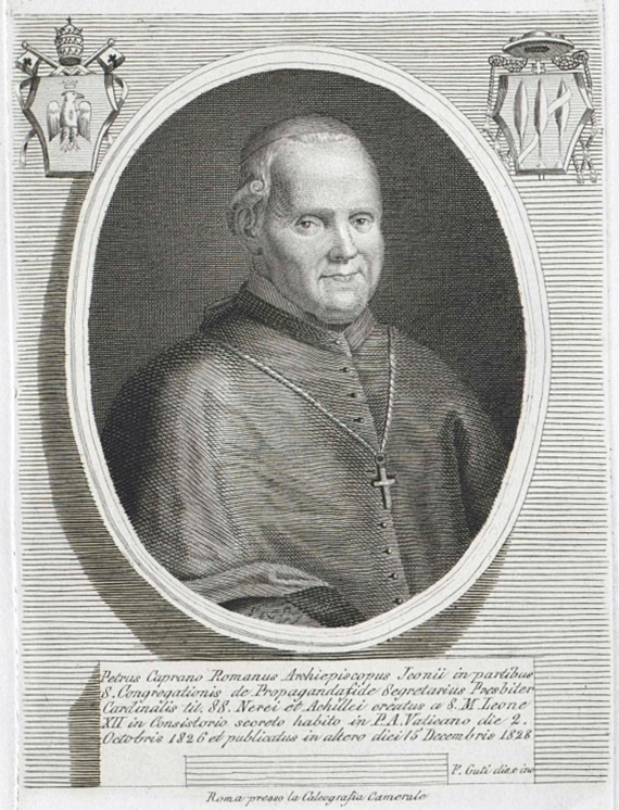 Kardinal Pietro Caprano (1759-1834)